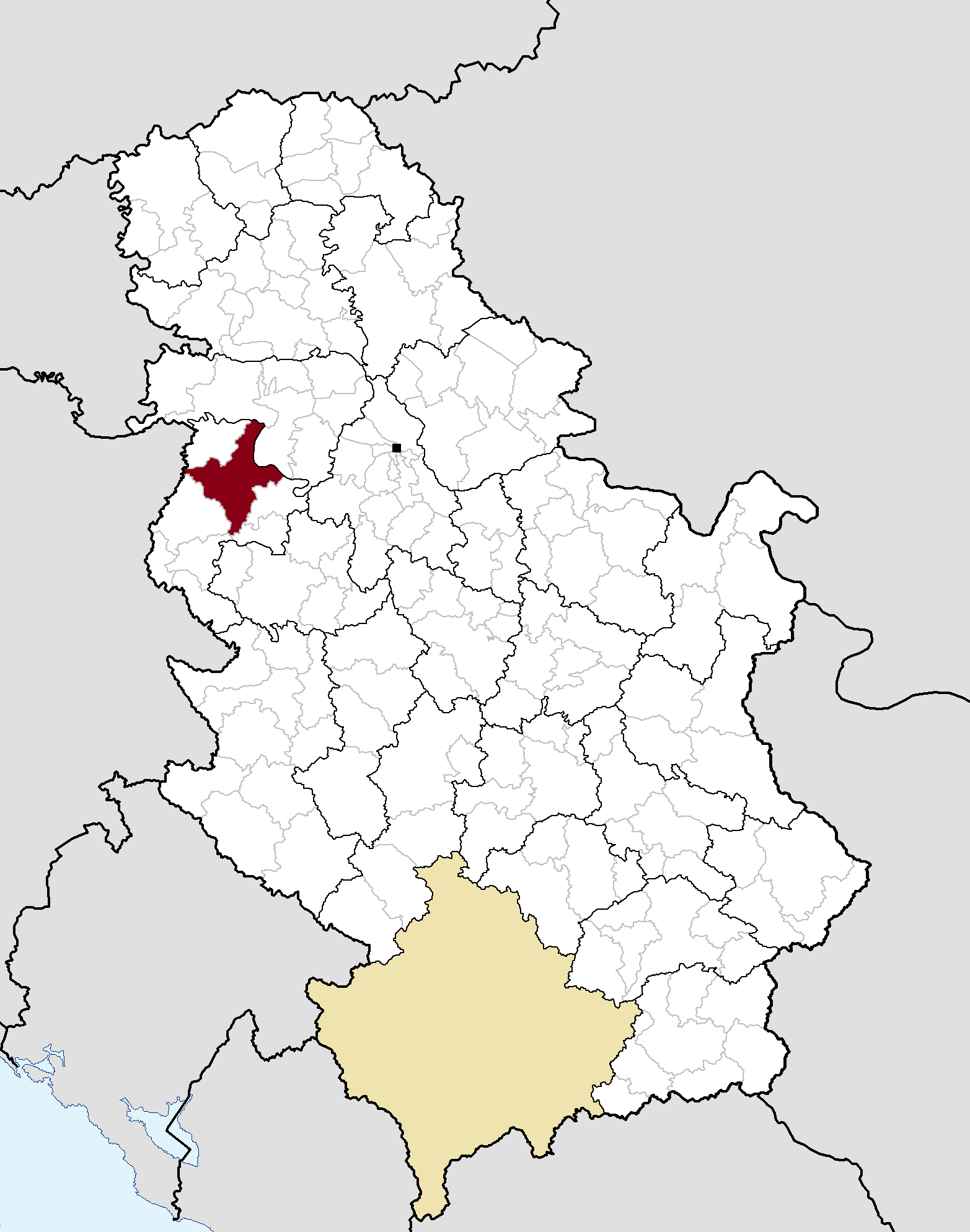 Municipal location in Serbia